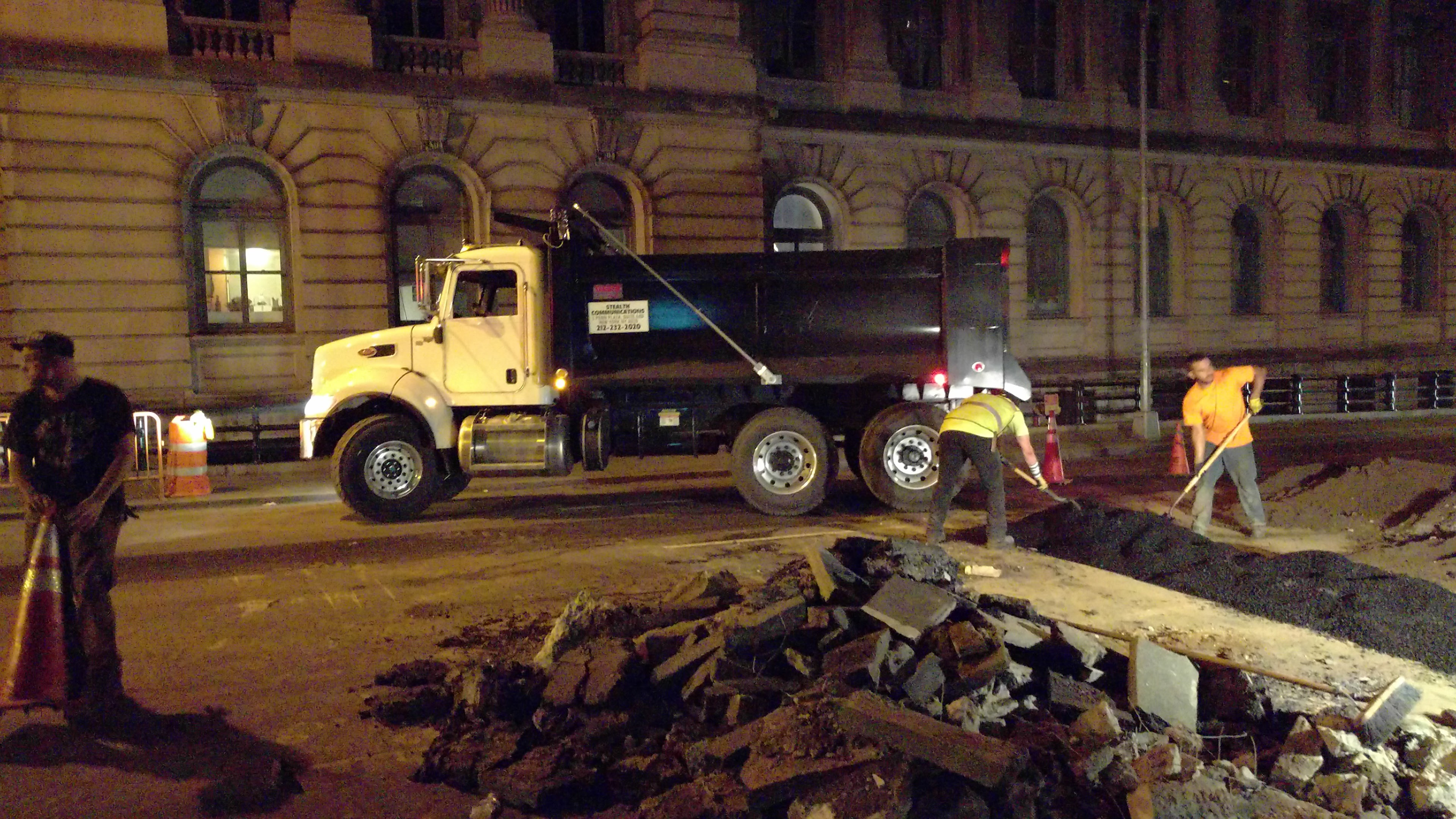 Stealth Communications crew laying down asphalt over fiber-optic trench, in Chinatown (New York City)